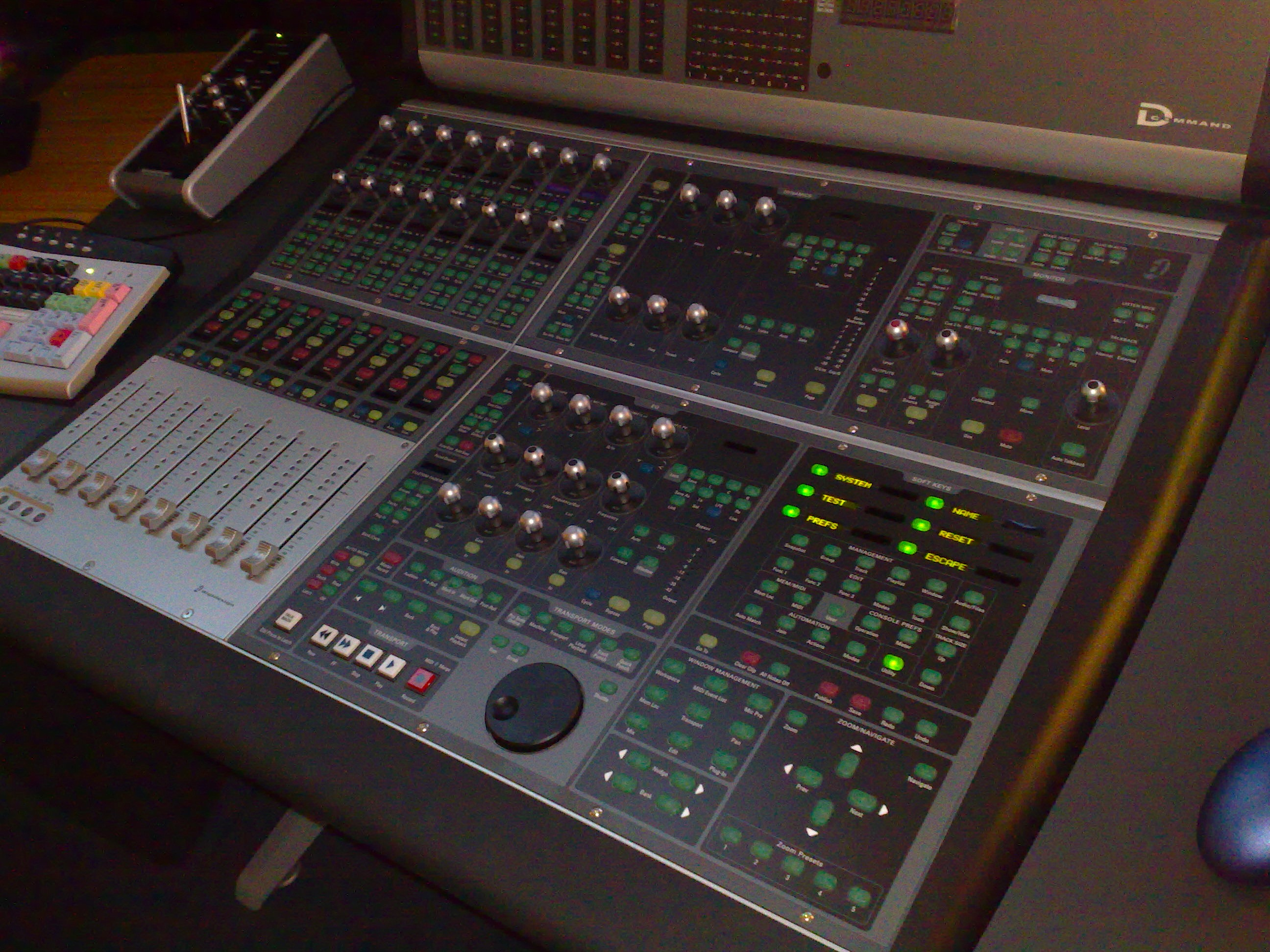 Apart from being black, nothing much has changed. This is more or less the console I work on every day. Except of course we have a faderpack added to it.